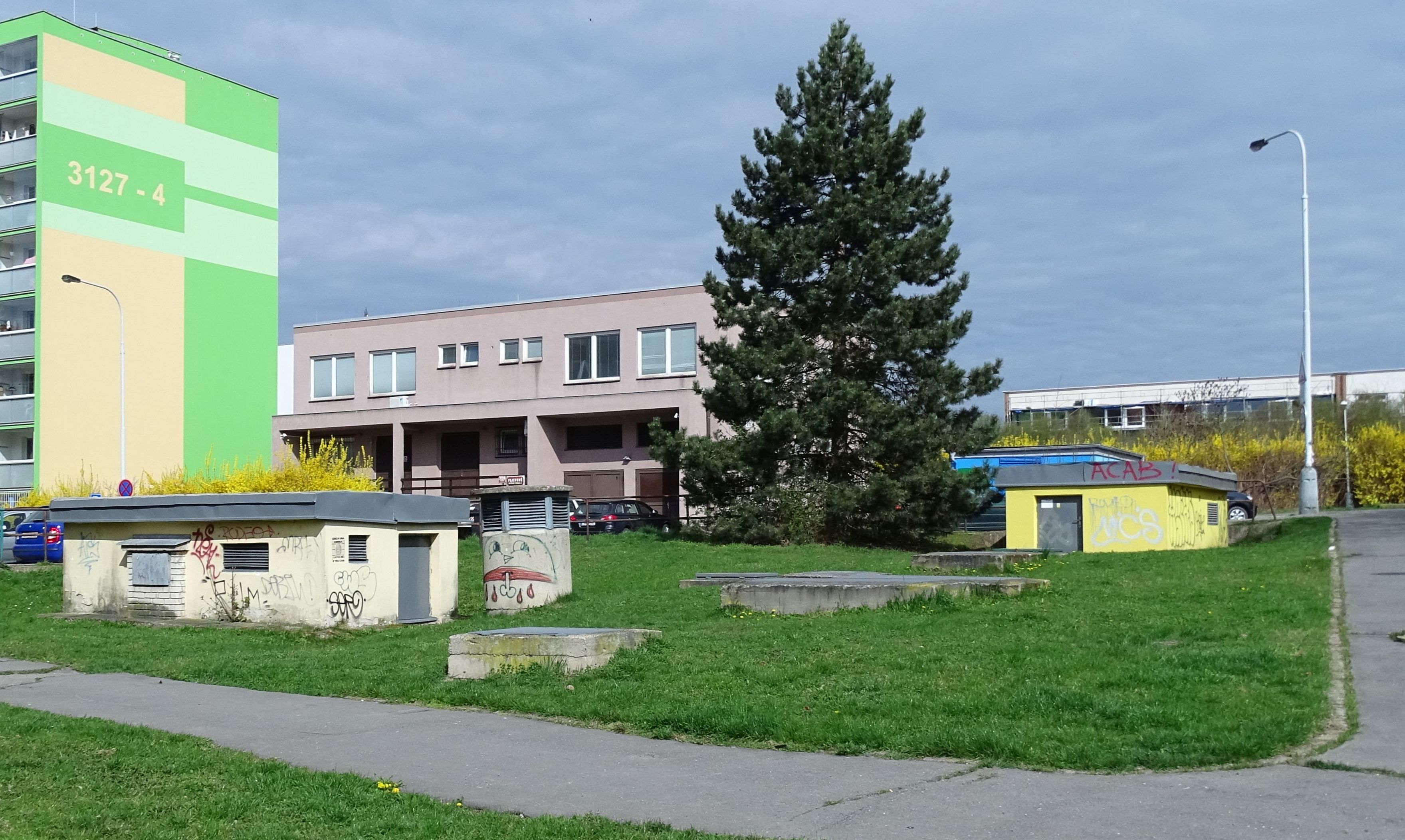 Prague-Modřany, Czech Republic. Pejevové 3128/11 utility tunnel building and structures.